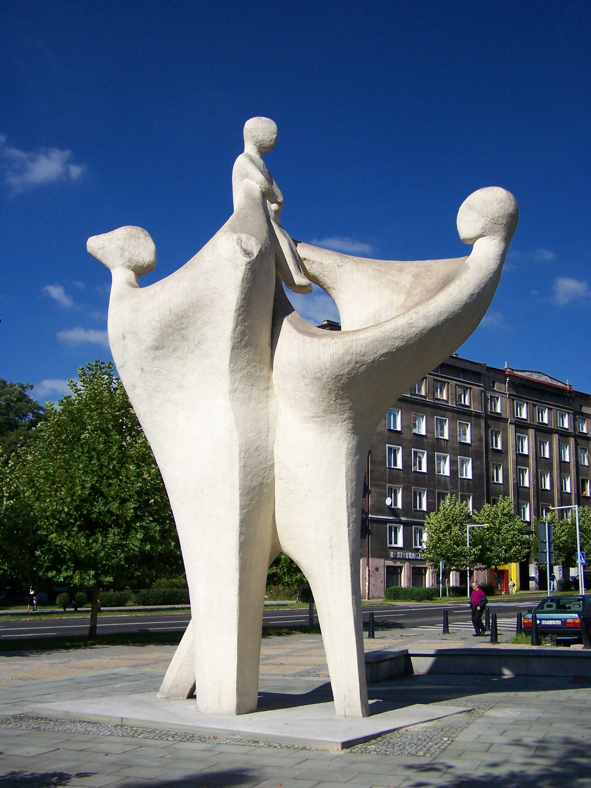 Statue "Family" in Katowice (Poland).